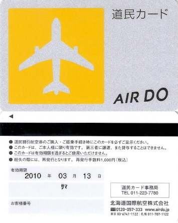 Air Do "Dōmin Card"